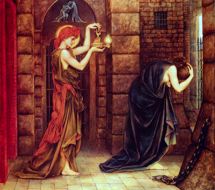 allegorical, pre-raphaelite painting showing Hope as a woman or very young man holding a lamp, entering the dungeon where Despair is shown as another human figure bowed down with grief. Hope's saint-like halo suggests the comfort brought by religious faith.